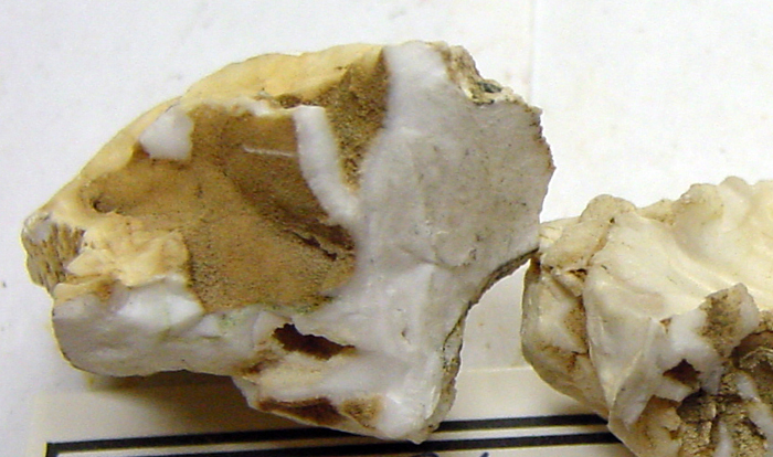 Bakerite. Mineral collection of Bringham Young University Department of Geology, Provo, Utah. Photograph by Andrew Silver. BYU index 8- 2081.